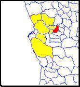 Municipality of Bula Atumba